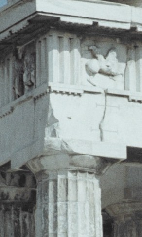 Doric order of the Parthenon (Athens), c. 443 b.c.e., Iktinos and Kallikrates, architects